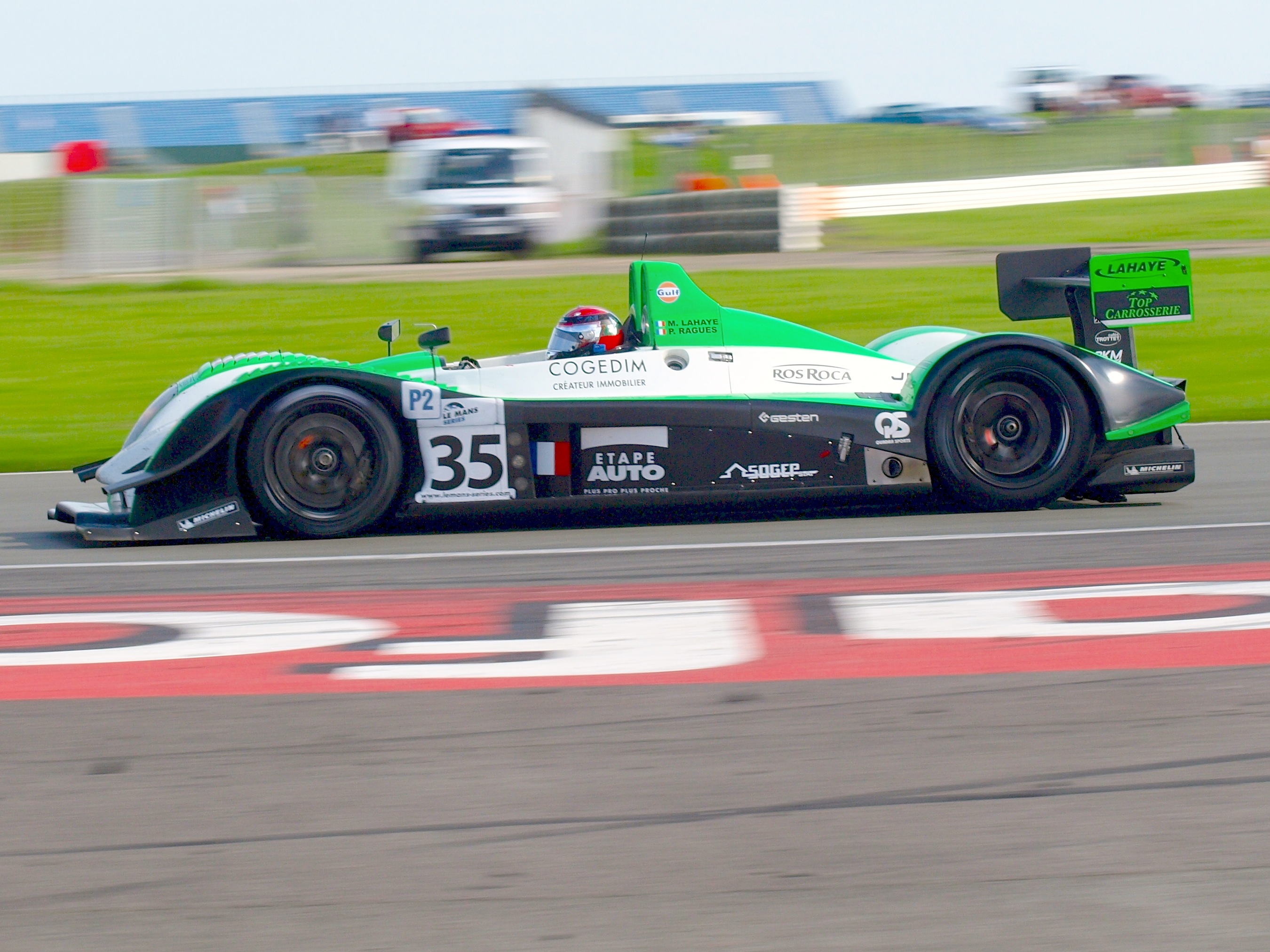 Pierre Ragues at the wheel of Saulnier Racing's Pescarolo 01-Judd at the 2008 1000km of Silverstone.